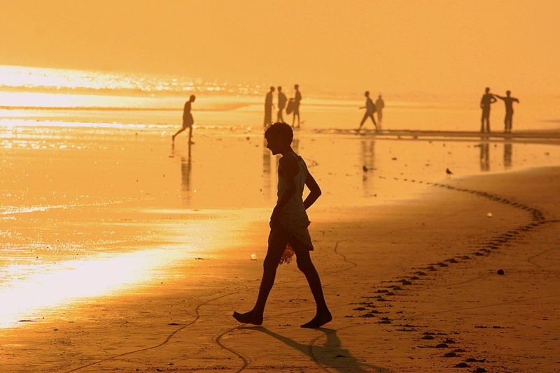 The Puri beach, Orissa, India, taken by Nir Nussbaum on January 2006